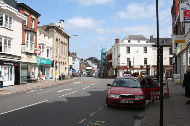 Wellington: Fore Street Looking north east towards the High Street with South Street running in on the right. North Street, which leads to Milverton, is hidden beyond the buildings on the left of the street